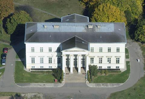 Gyömrő Teleki castle aerial photography This is a photo of a monument in Hungary. Identifier: 7072 This picture is © copyright Civertan Grafikai Stúdió (Civertan Bt.), 1997-2006.; has been verified that Commons user Civertan is controlled by Civertan Grafikai Stúdió and that it is allowed to relicense content copyrighted to this organization. This work is free and may be used by anyone for any purpose. If you wish to use this content, you do not need to request permission as long as you follow any licensing requirements mentioned on this page.